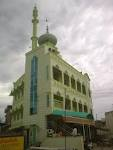 Masjid(Mosque) in Melapalayam, Tirunelveli